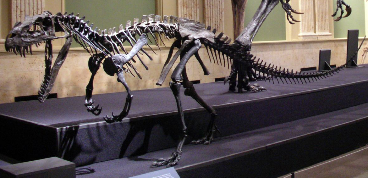 Ceratosaurus skeleton mount, Wisconsin